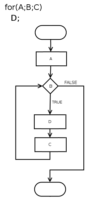 for loop diagram made in Dia author: Paweł Zdziarski (faxe)